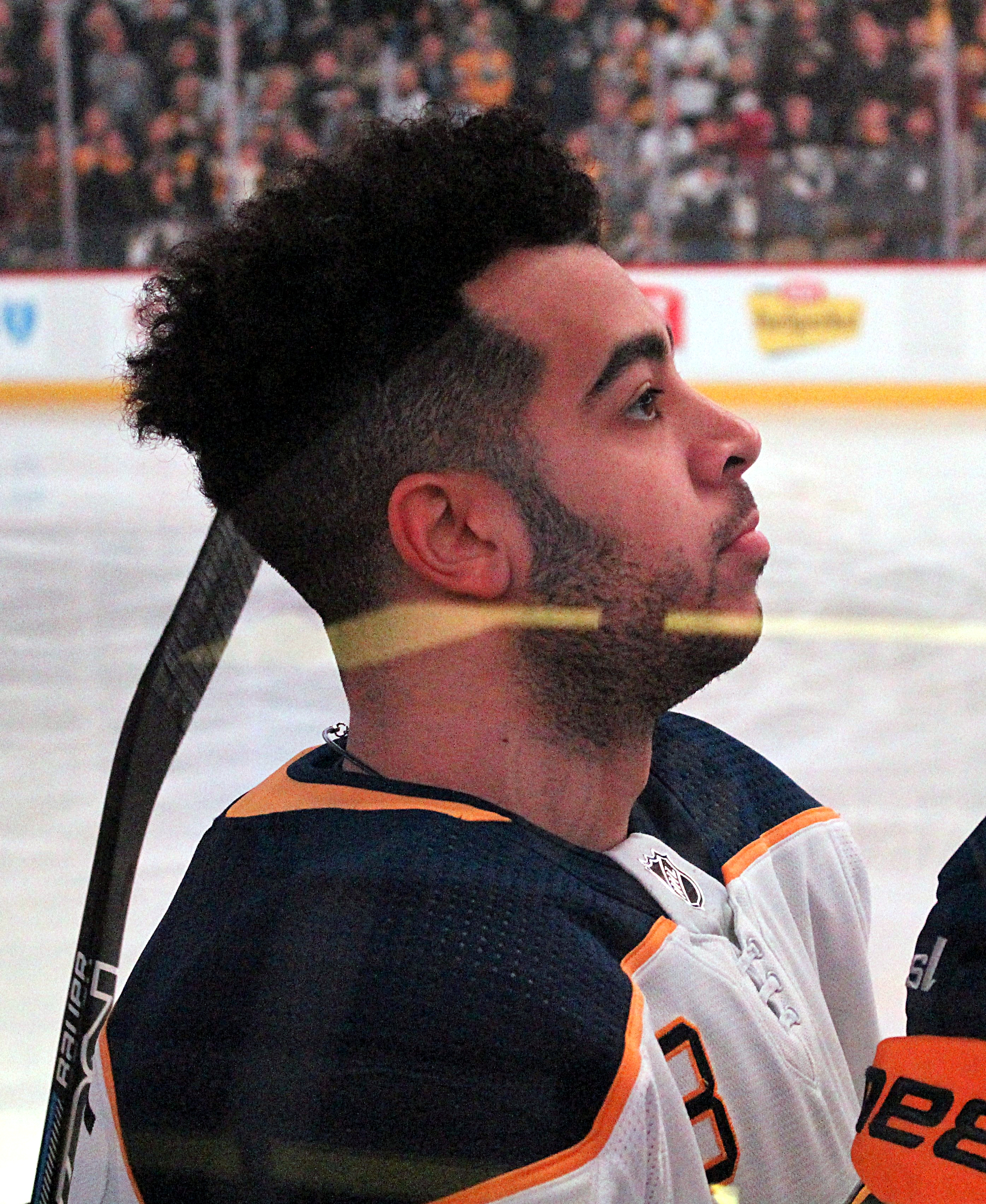 Buffalo Sabres forward Nicholas Baptiste during a game against the Pittsburgh Penguins, November 14, 2017, at PPG Paints Arena in Pittsburgh, PA.